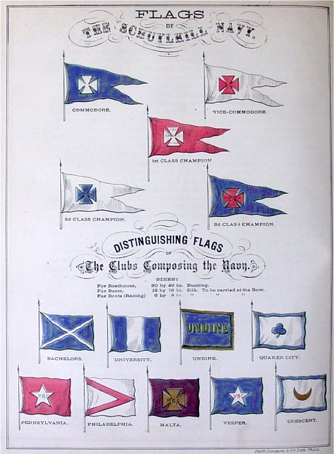 Flags of the Schuylkill Navy 1870 (color hue edited)